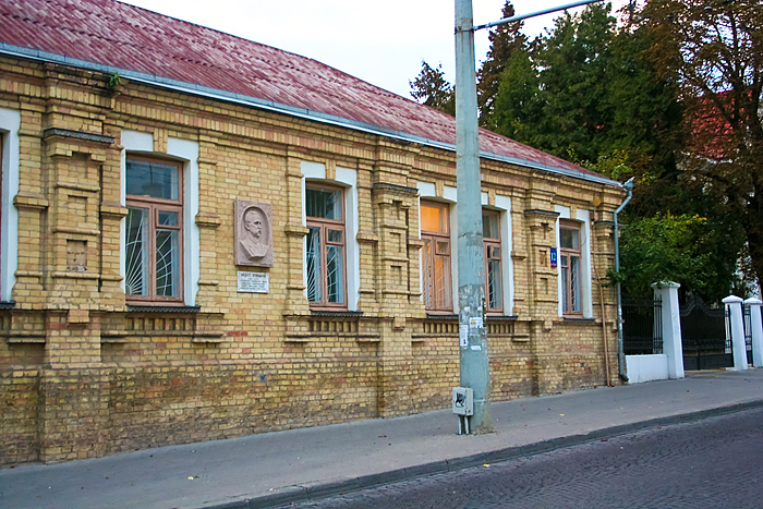 Lutsk's ukrainian gymnasium in the past